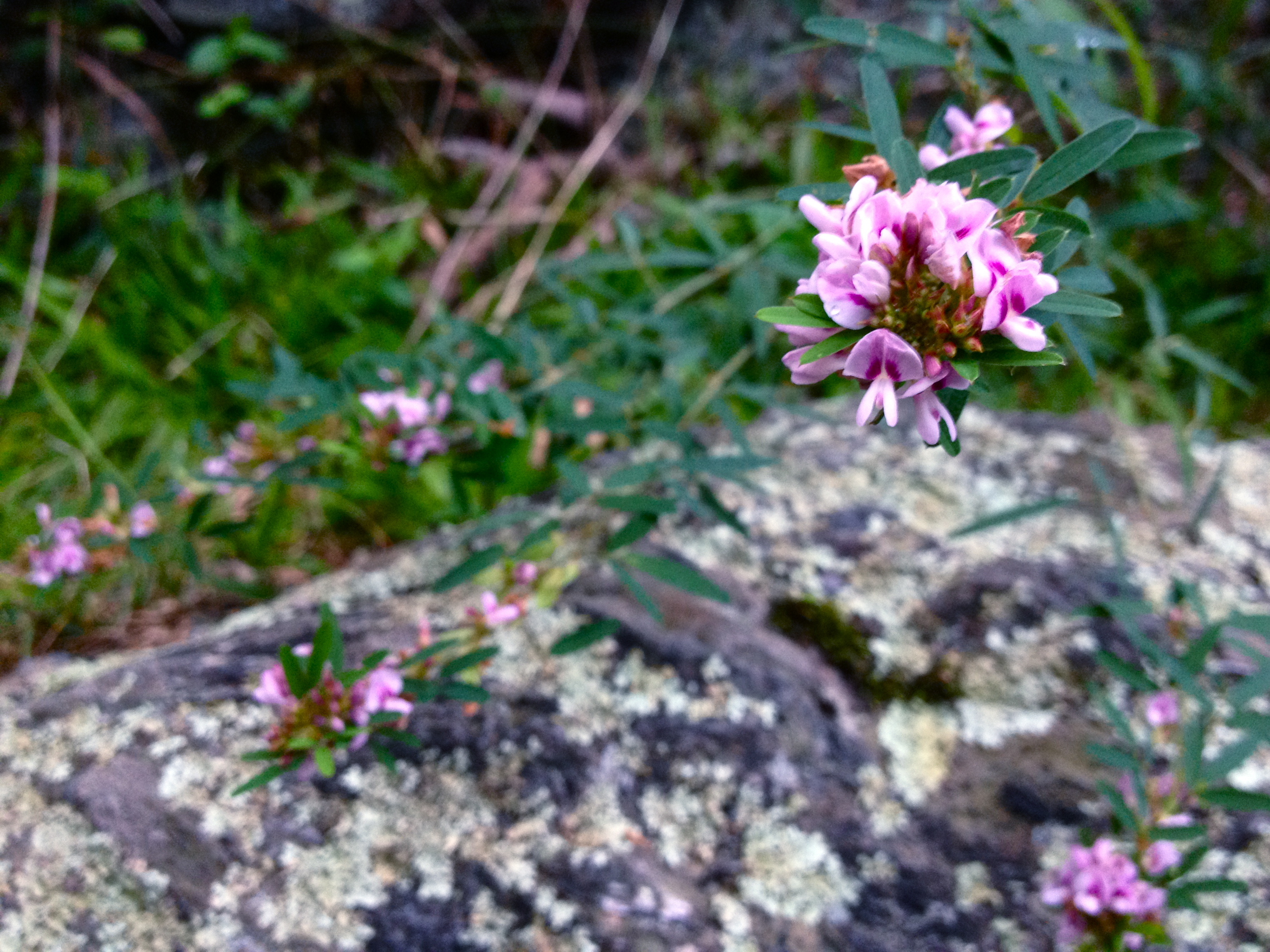 Photo of Lespedeza virginica in flower. This is a native plant growing wild in Great Falls Park, Fairfax county Virginia, USA. This species is a member of the Fabaceae family.